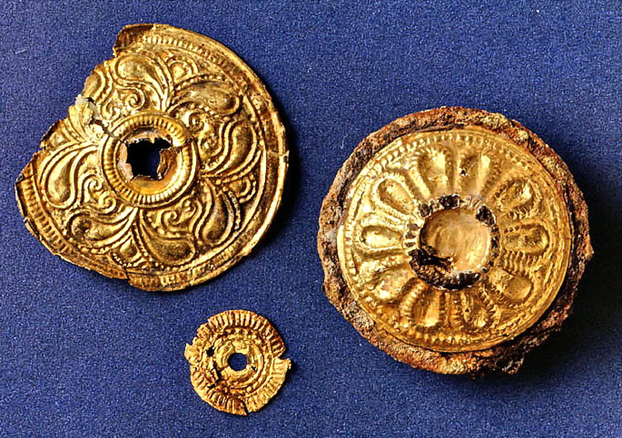 Uetliberg / Uitikon-Waldegg, Sonnenbühl : 'Fürstengrabhügel Sonnenbühl', Golden Plates, La Tène culture, shown at the Swiss National Museum in Zürich. ~ 500 b.C.